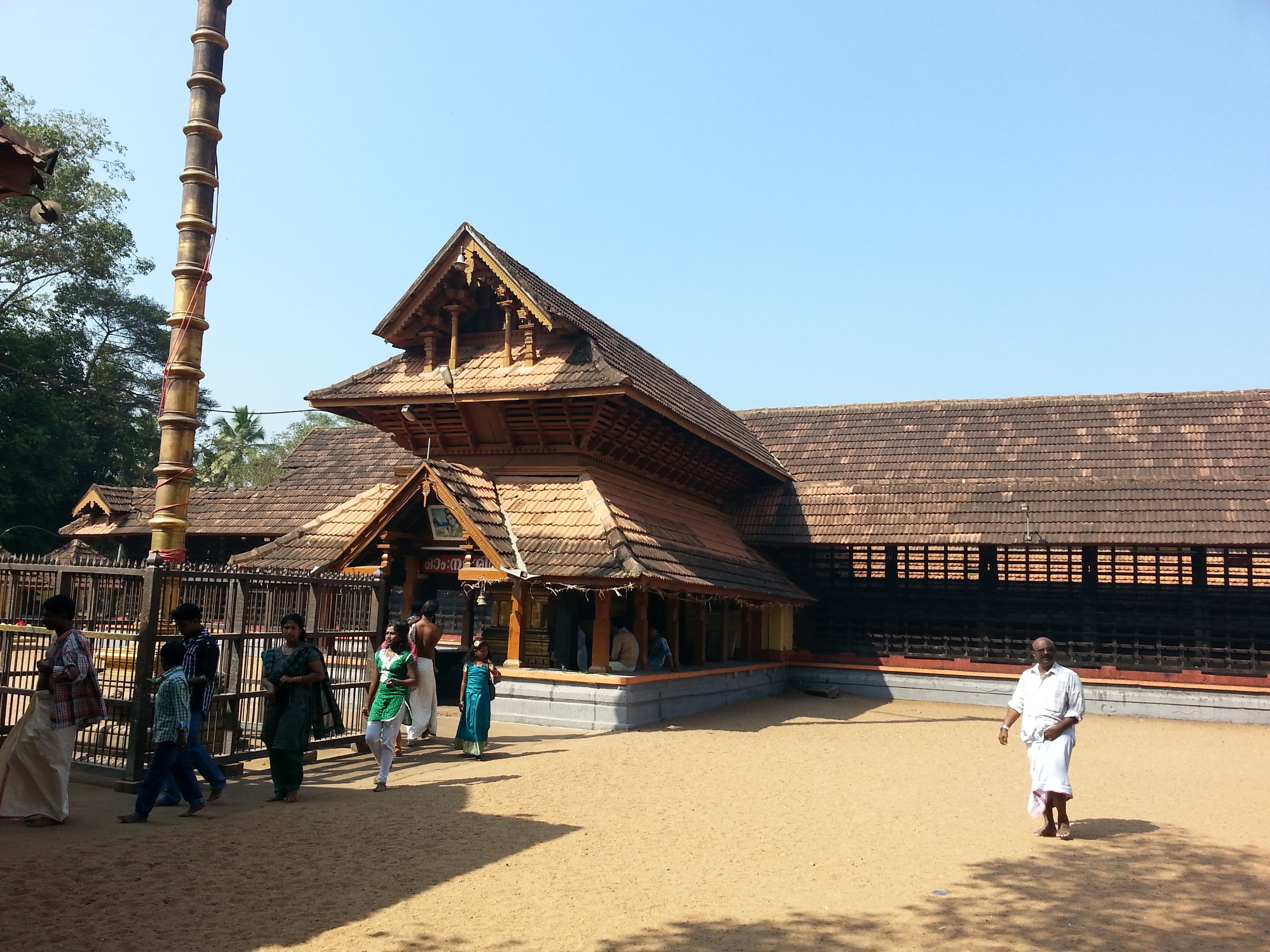 Mavelikara Kandiyur Temple